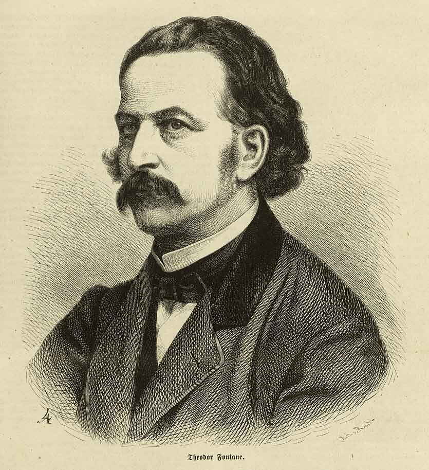 Portrait of Theodor Fontane.